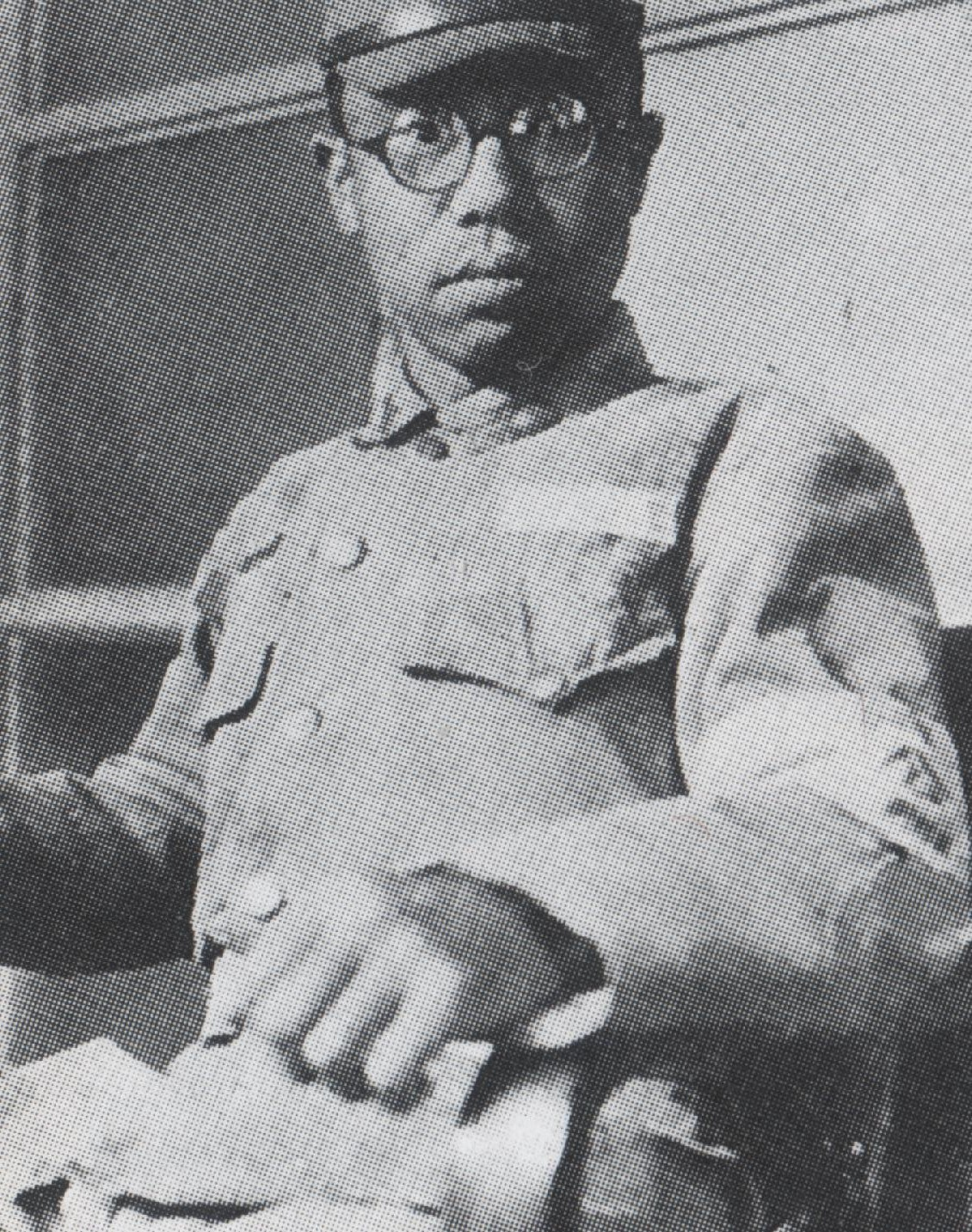 Seichō Matsumoto, 1943, 34 years old.